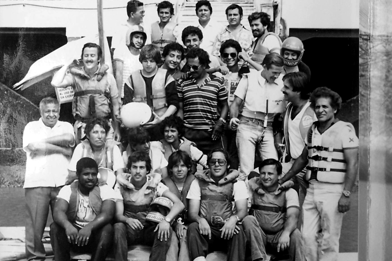 Guayaquil-Vinces Regatta 1981. Pilots of the 80s.